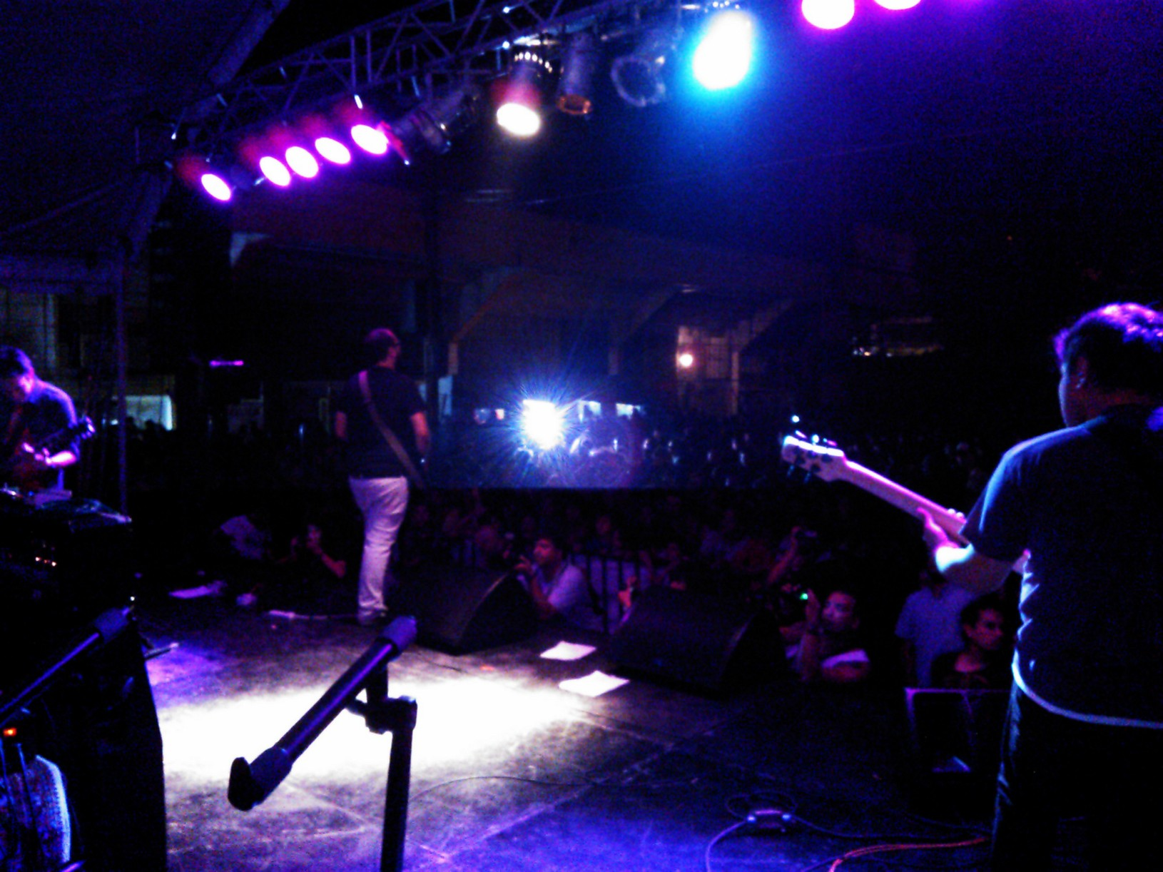 A.c.m.e Live at Ibagué Ciudad Rock 2012